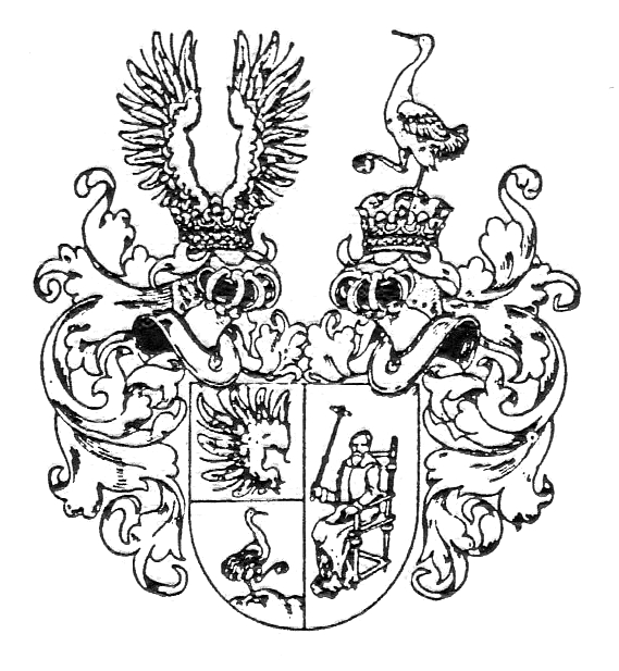 Coat of arms of the Richthofen family